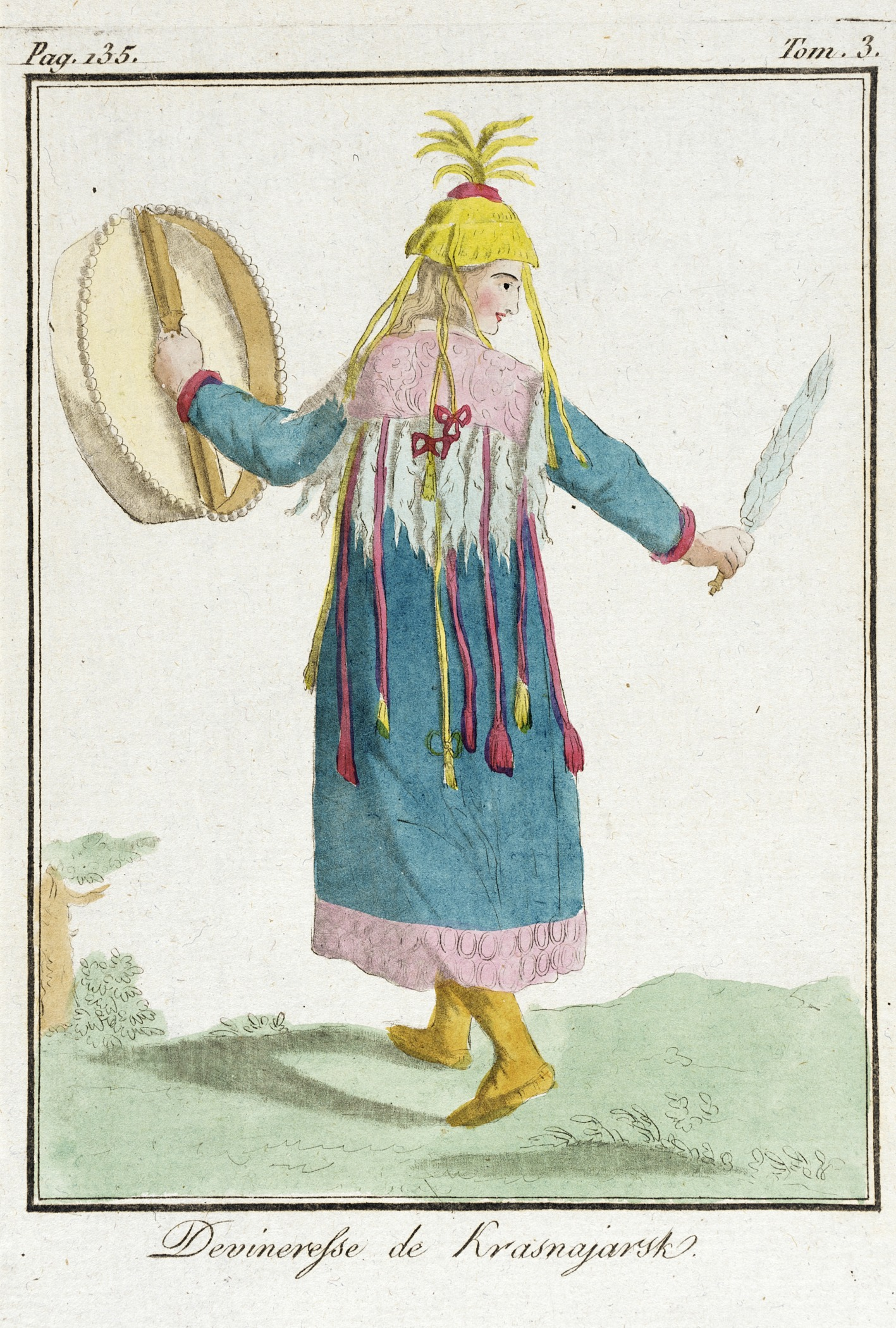 France, late 18th to early 19th century Prints; engravings Hand-colored engraving Costume Council Fund (M.87.231.7) Costume and Textiles